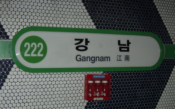 Gangnam Station